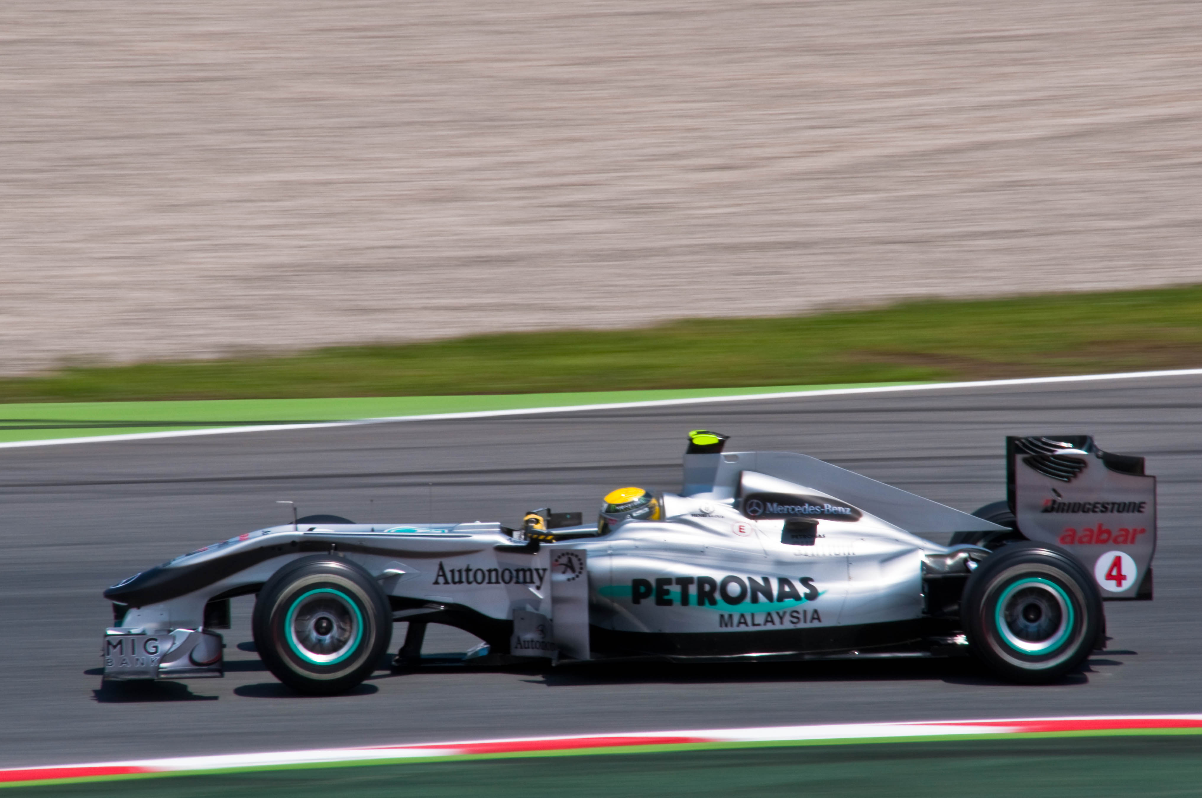 Nico Rosberg driving for Mercedes GP at the 2010 Spanish Grand Prix.